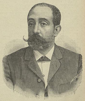 The Count of Avelar (1855-1932)